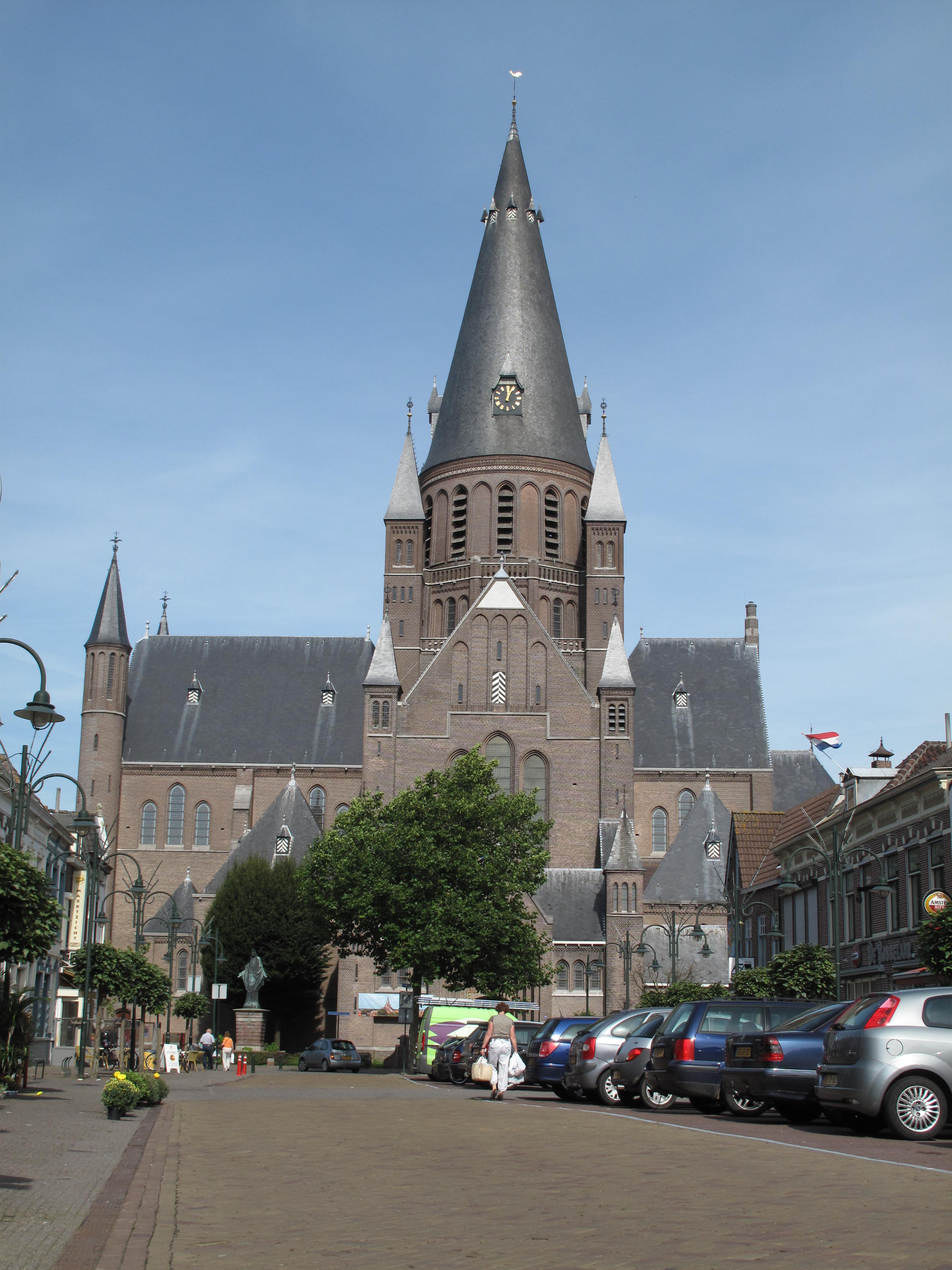 Steenbergen, church: Gumaruskerk